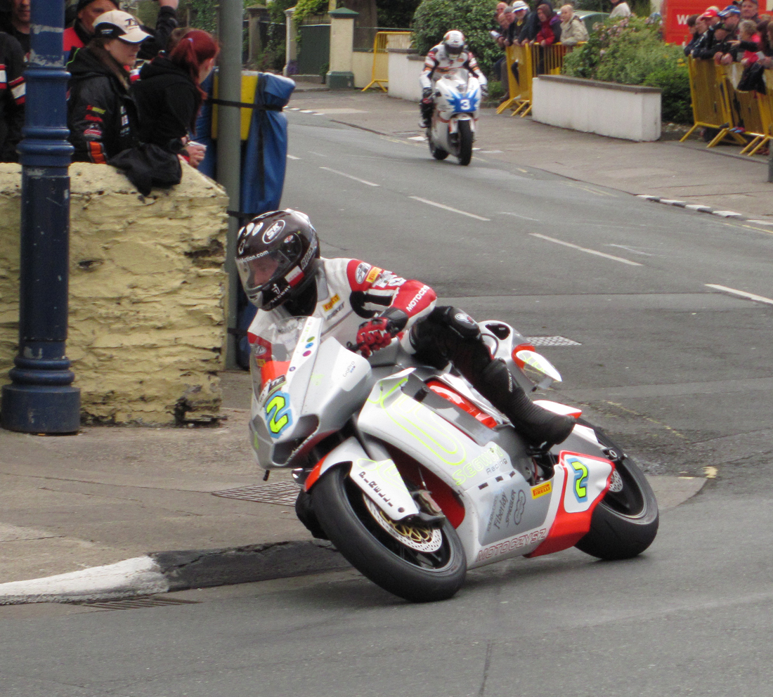 Description : Isle of Man TT Races Date : 6th June 2012 Source :/ Agljones at en.wikipedia Permission See below.